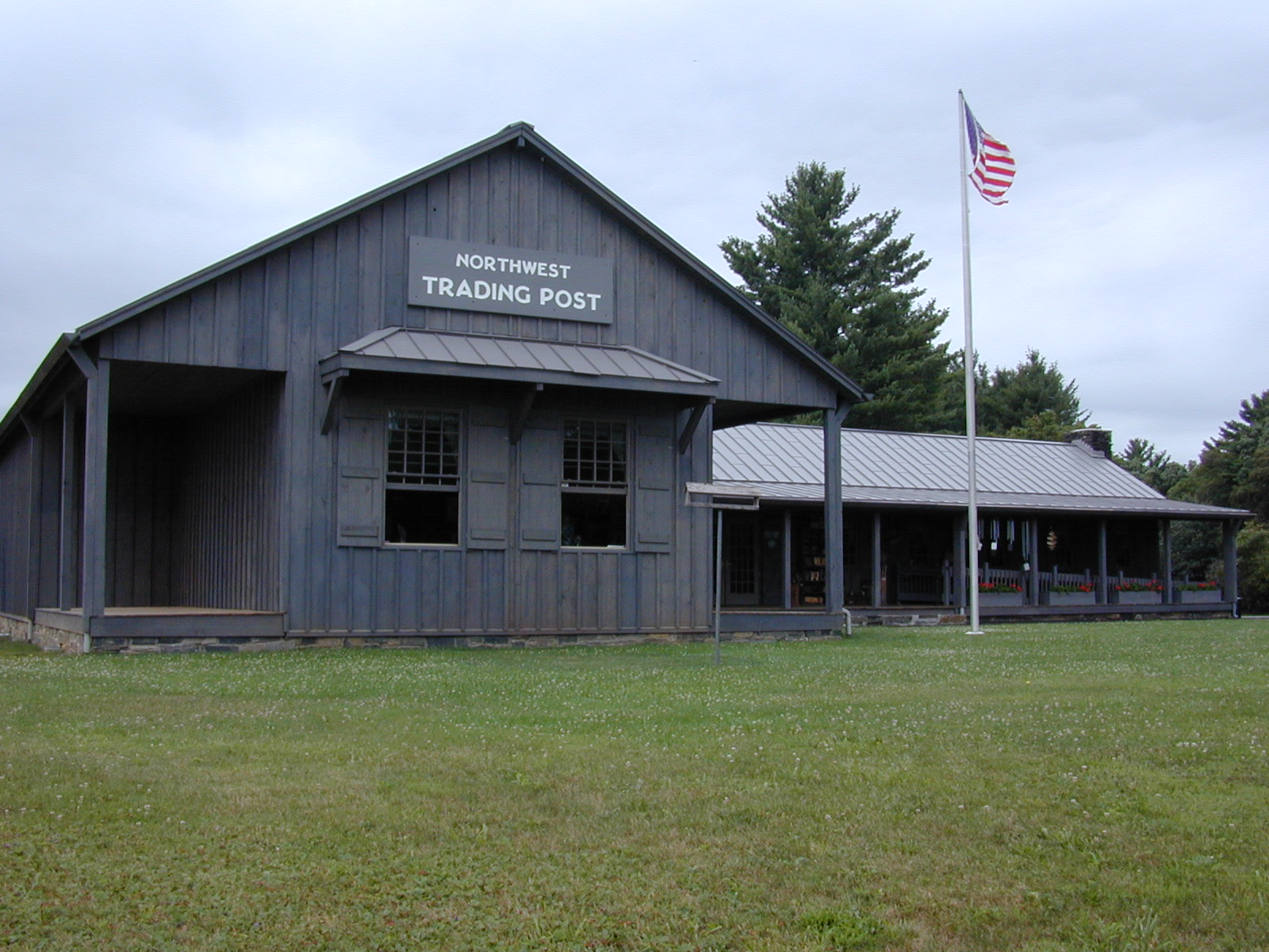 Northwest Trading Post Photo by Jan Kronsell, 2002.